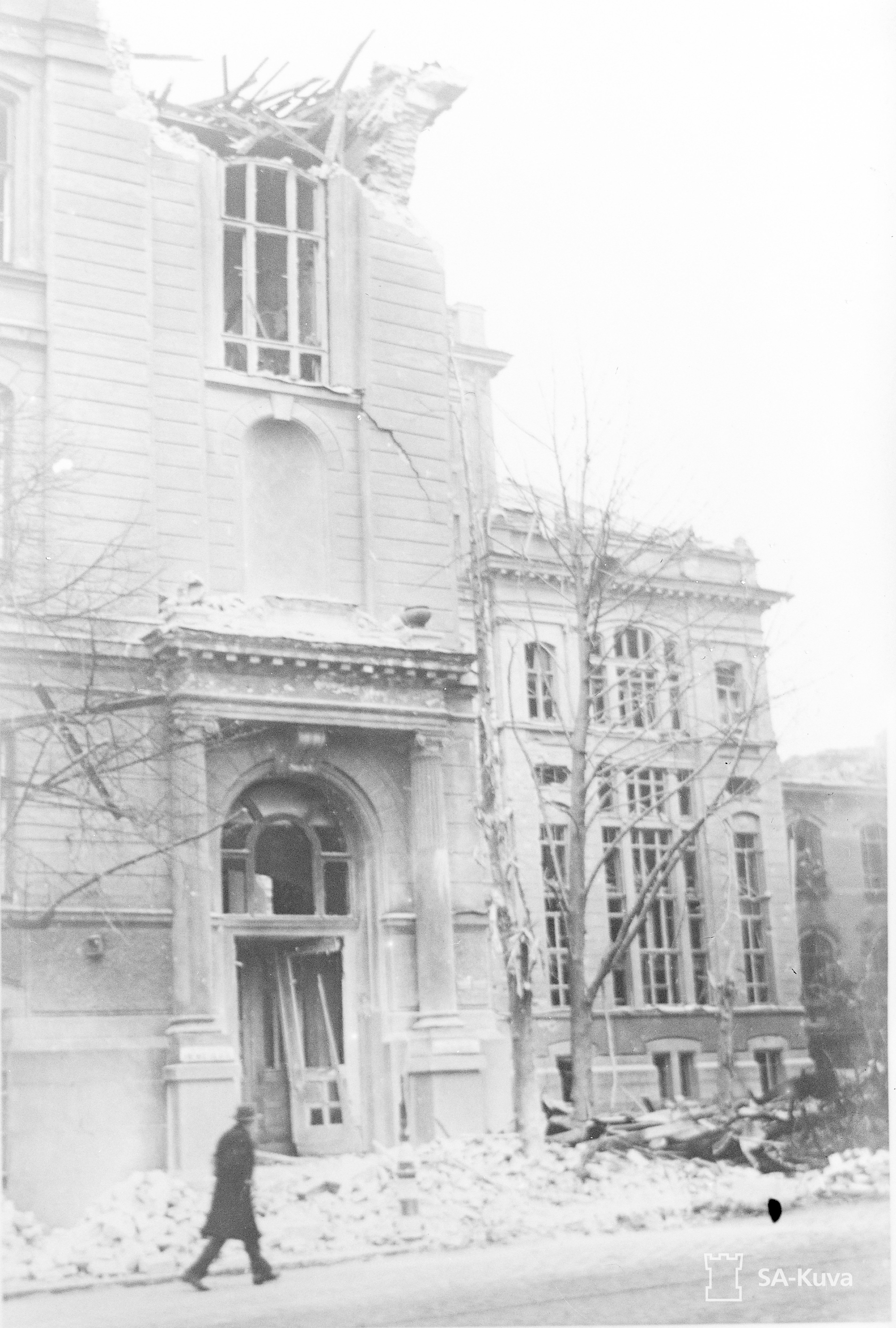 Aerial bombardment damage in Helsinki, Finland, during the Winter War in 1939. Helsinki University of Technology, Bulevardi.